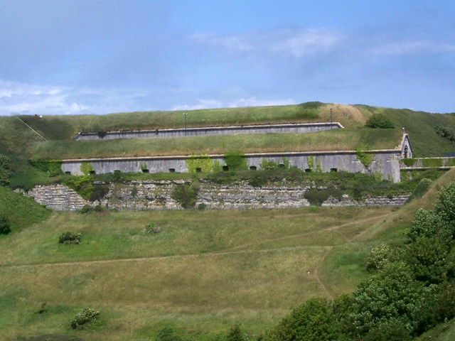 Verne Battery, Portland Built in the early 19th century to protect Portland Harbour.